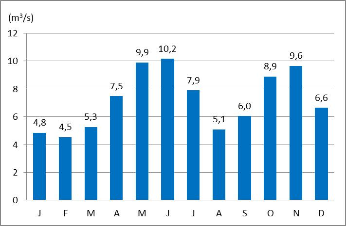 Average monthly discharges of Kamniška Bistrica River at the gauging station Kamnik in 1971–2000